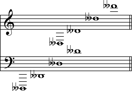 Notes, D Double Flat